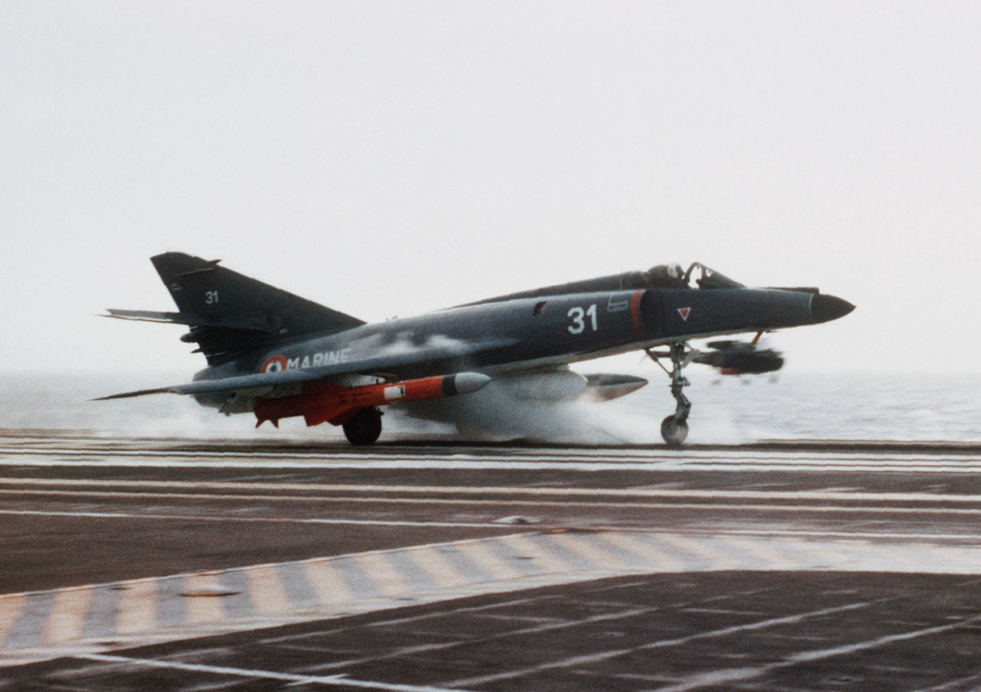 An Aéronavale Dassault Super Étendard armed with an AM39 Exocet missile launching from the French aircraft carrier Foch (R99) off the coast of Lebanon, in 1983.